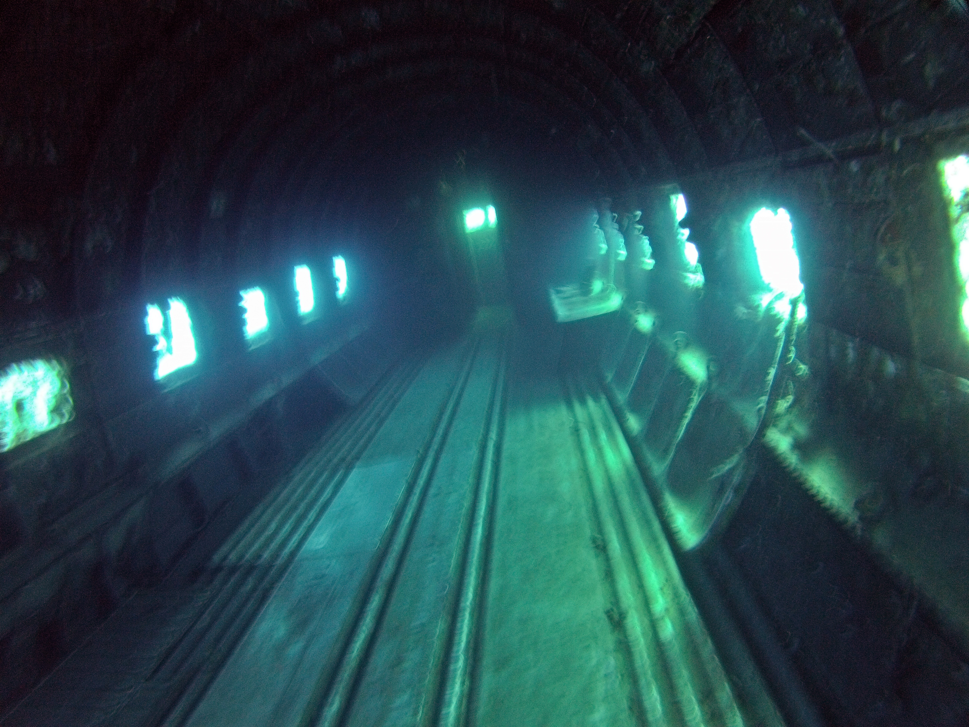 Cargo area of the C-47 Dakota in the bight of Kaş for scuba diving